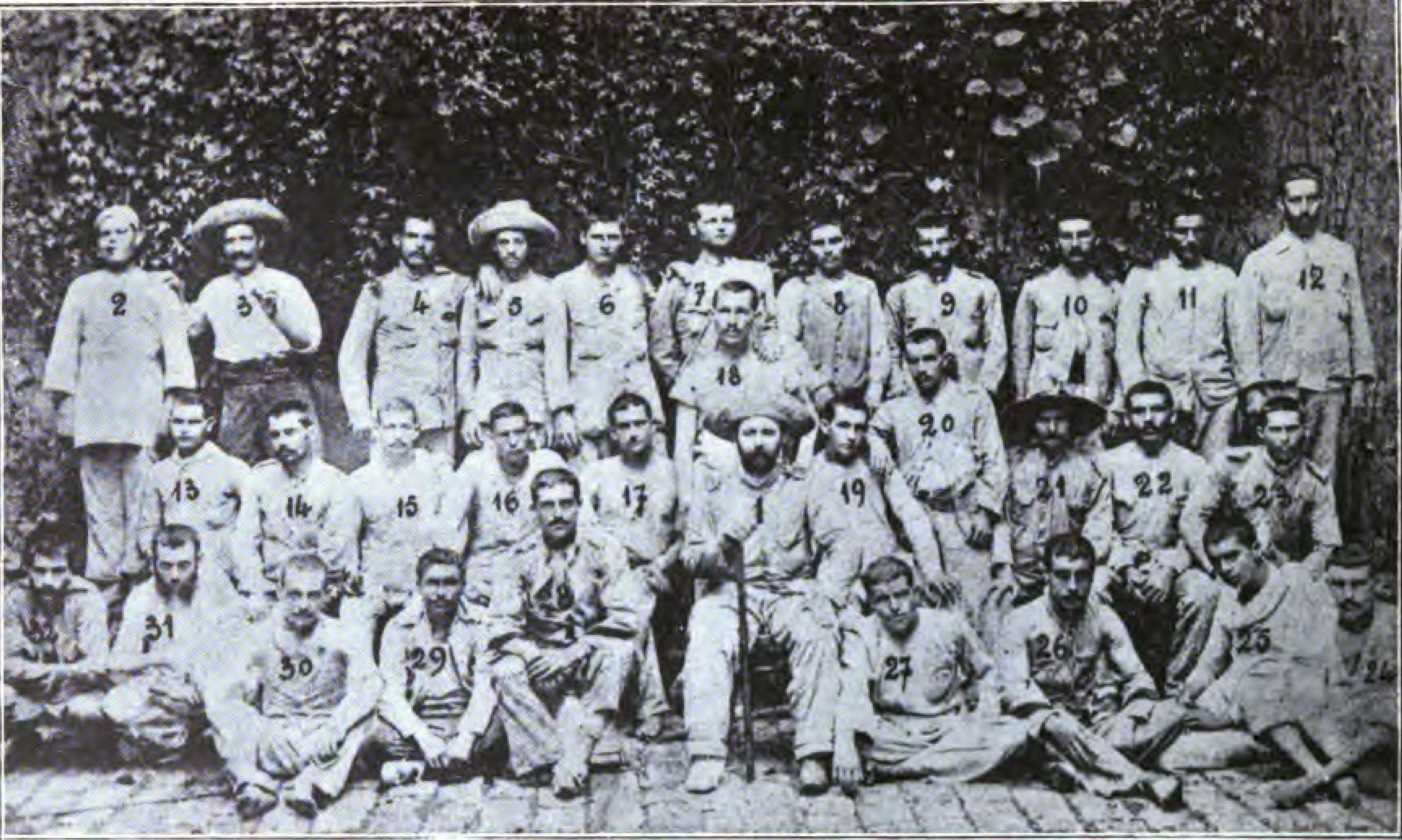 Survivors of the garrison of Baler from Under the red and gold: being notes and recollections of the siege of Baler (1909), by Saturnino Martín Cerezo (translation into English by Frank Loring Dodds)